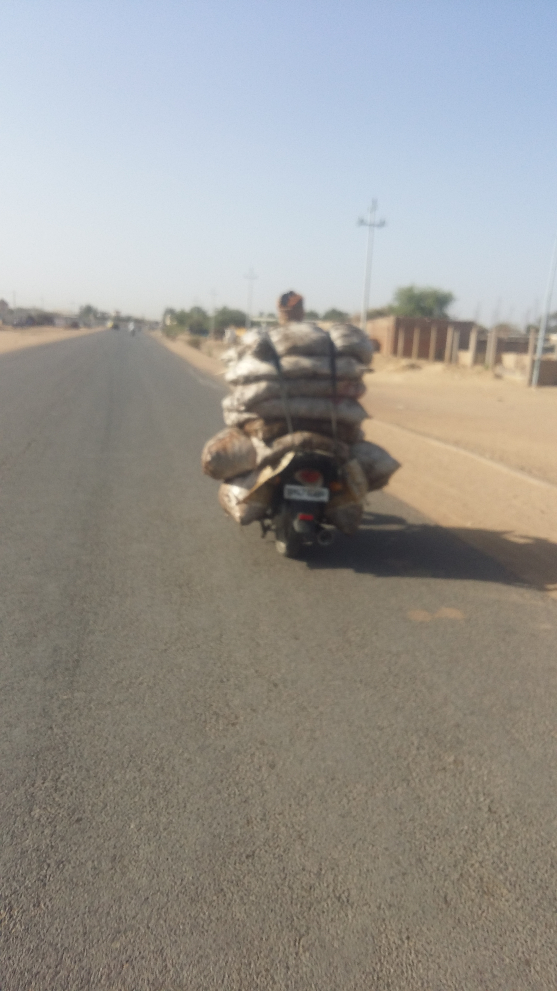 Transport de criquet à Goudji This is an image with the theme "Africa on the Move or Transport" from: Chad